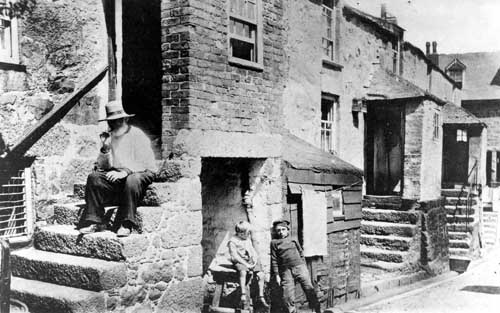 Bishopgate, a former slum area in Wetherby.